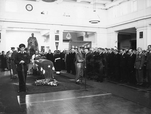 Former Prime Minister Ben Chifley's casket lay in state under military guard in now Old Parliament House Canberra, ACT, Australia.